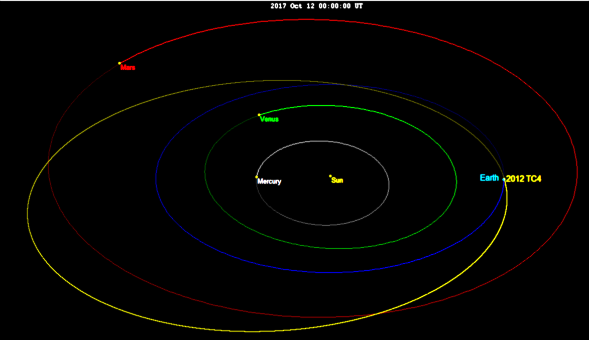 en:2012 TC4 orbit and 2017 flyby.